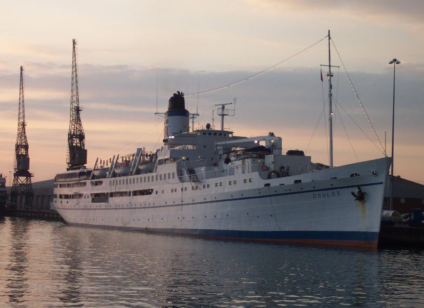 MV Doulos moored at Southampton Docks, England.